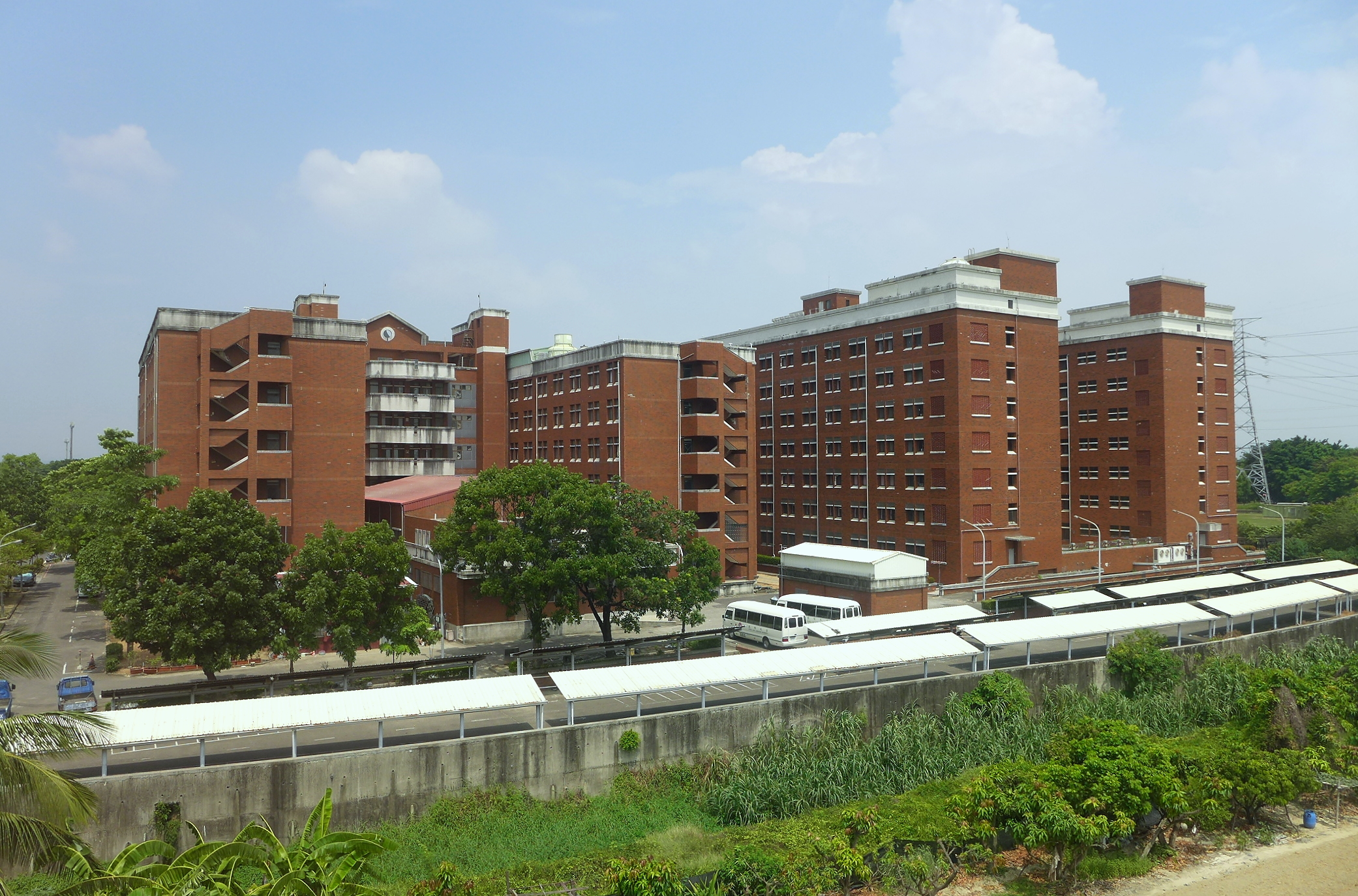 Tainan Chang Jung Christian University Hostel